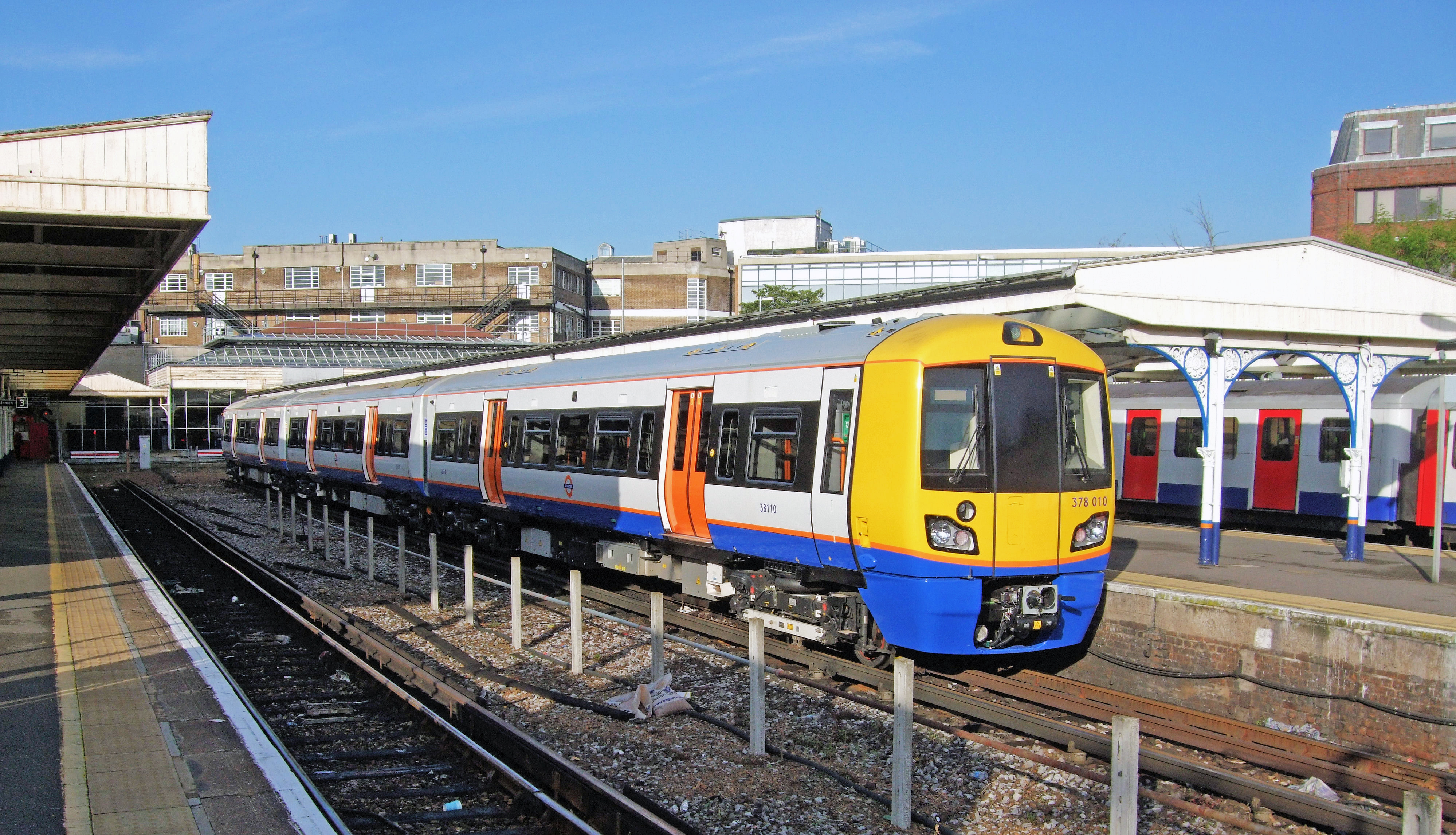 The Class 378 Capitalstar is a type of electric multiple unit which is part of Bombardier Transportation's Electrostar family and has been introduced on the London Overground network. Unit 378010 at Richmond station, London, England.